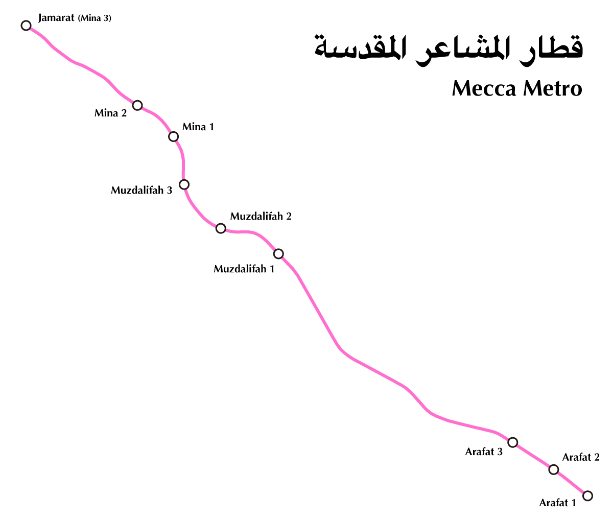 Mecca Metro Route Map